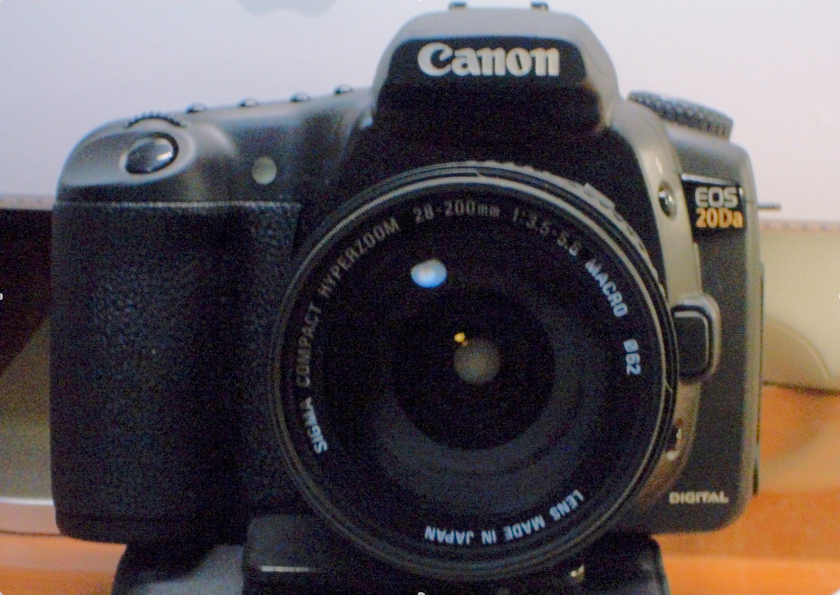 Canon EOS 20Da SLR camera (astrophotography model)